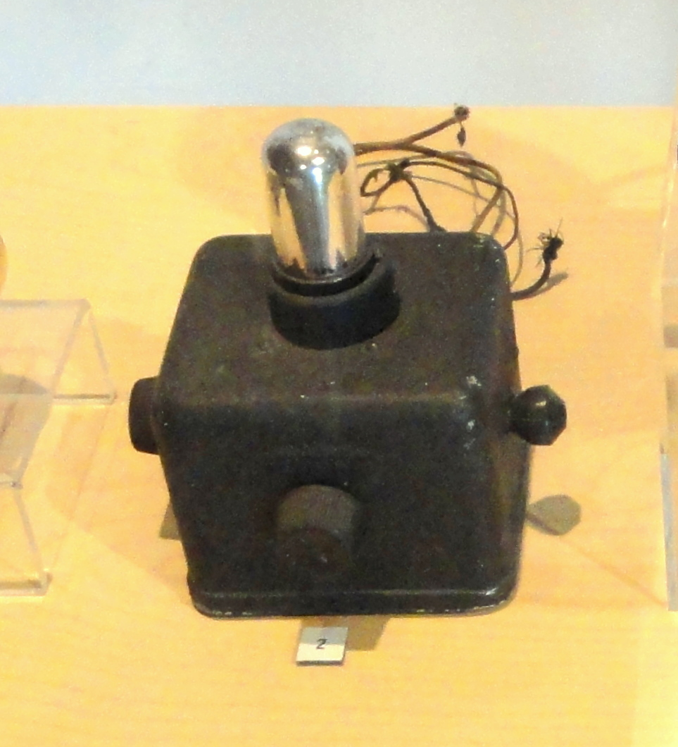 Early radio and television equipment, Indiana State Museum, 650 West Washington Street, Indianapolis, Indiana, USA. Left to right: 1915 De Forest Audion vacuum tube was the first device which could amplify electrical signals, creating the field of electronics. 1923 Crosley "Pup" radio; this single tube receiver was manufactured in Cincinatti. AT&T double button broadcasting microphone used in Indianapolis' first successful radio station, WFBM, established 1924. 1927 experimental television receiver prototype built by Morris VanWay for RCA used a spinning disk with holes in front of a neon light to create an image. Before modern electronic scan television was developed around WW2, many radio stations broadcast experimental mechanical scan television programs.